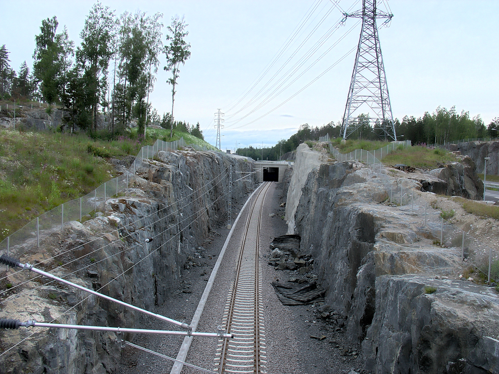 Kerava–Savio railway to Vuosaari harbour passing under Ring III in Vantaa, Finland